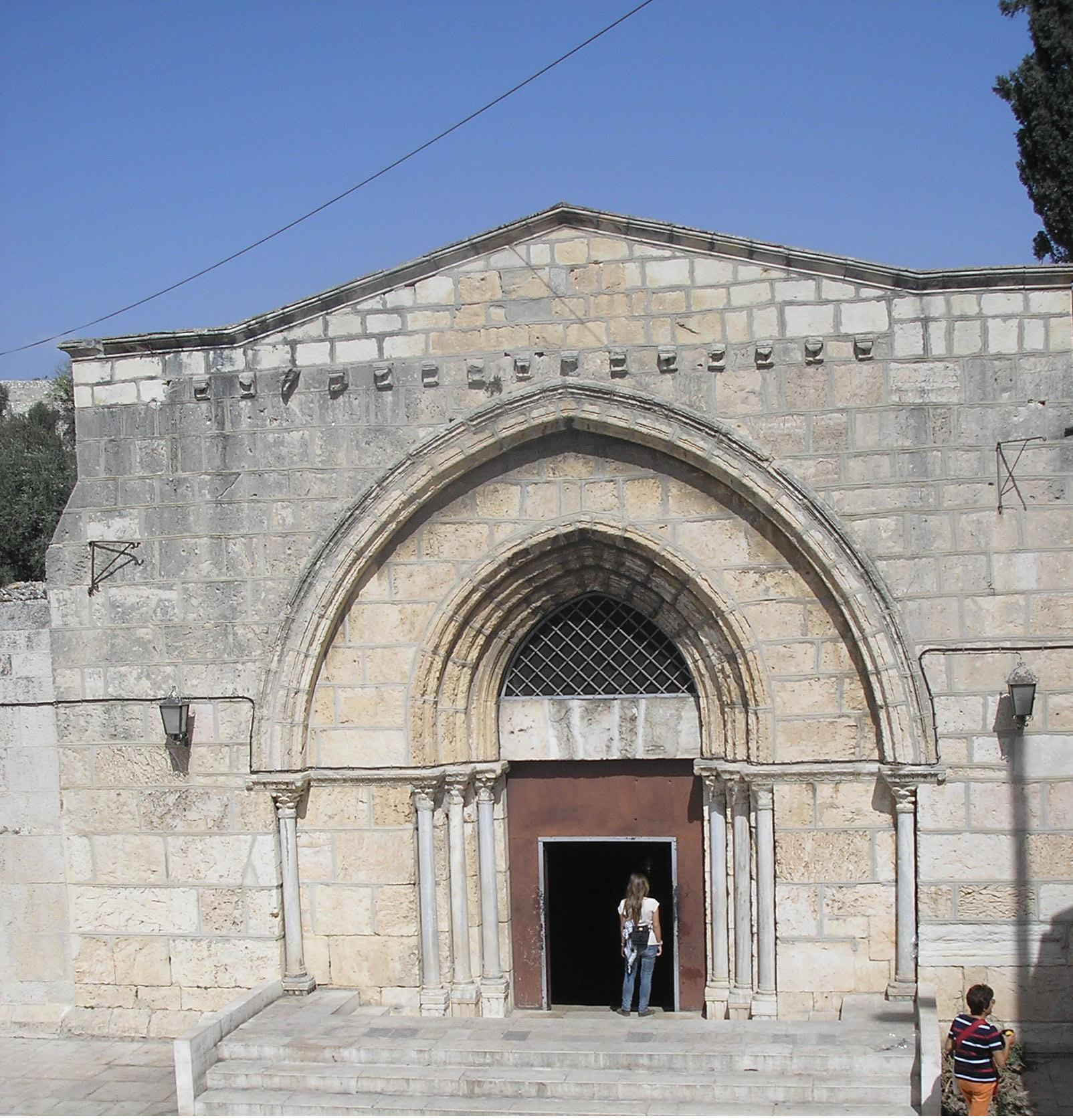 Mary's tomb - outside view